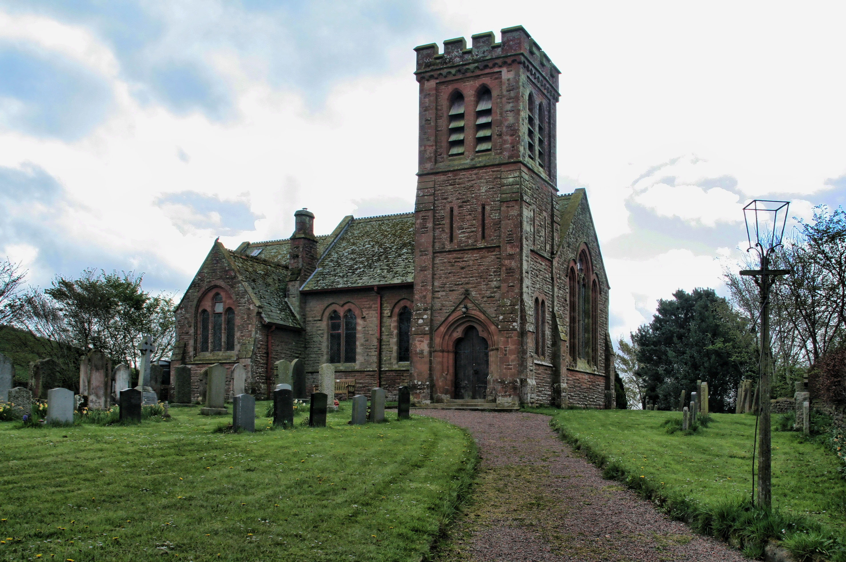 Photograph of St Mary's Church, Cumrew, Cumbria, England